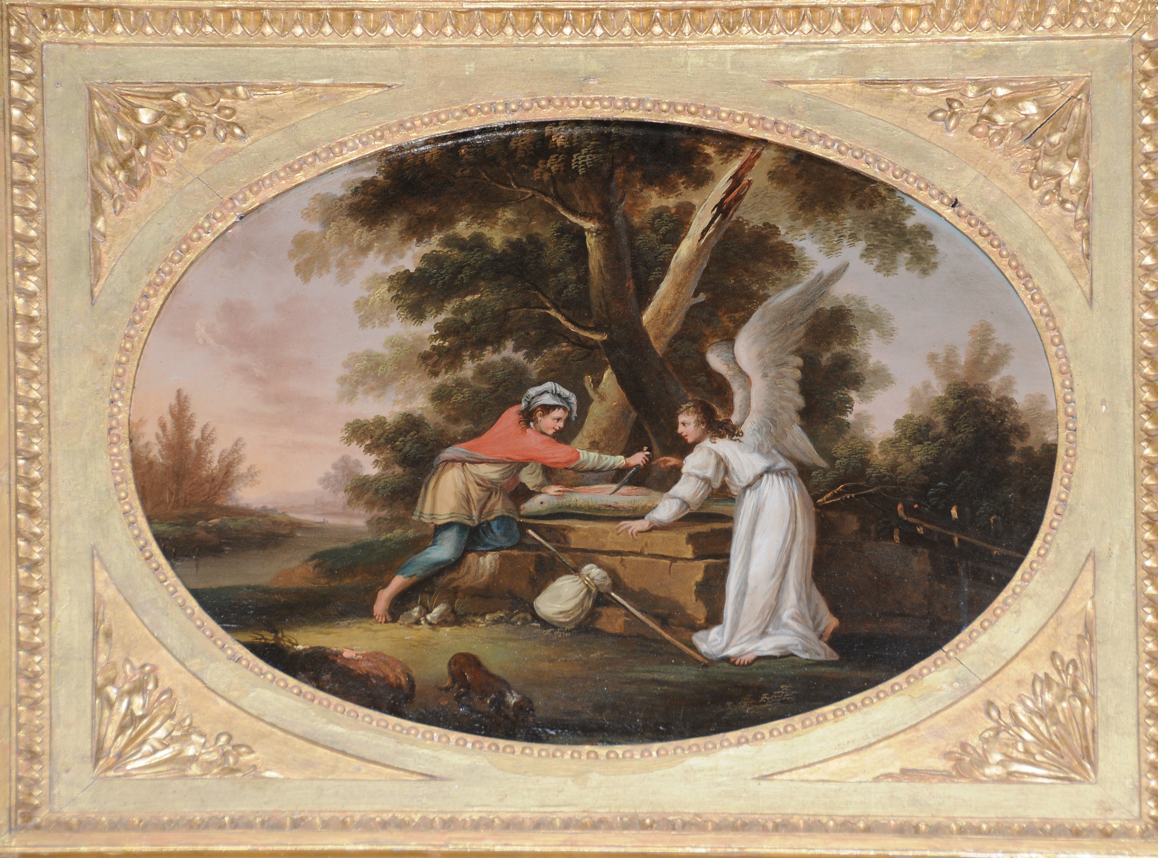 Painting in Vilar de Frades Sacristy, Barcelos, Portugal.